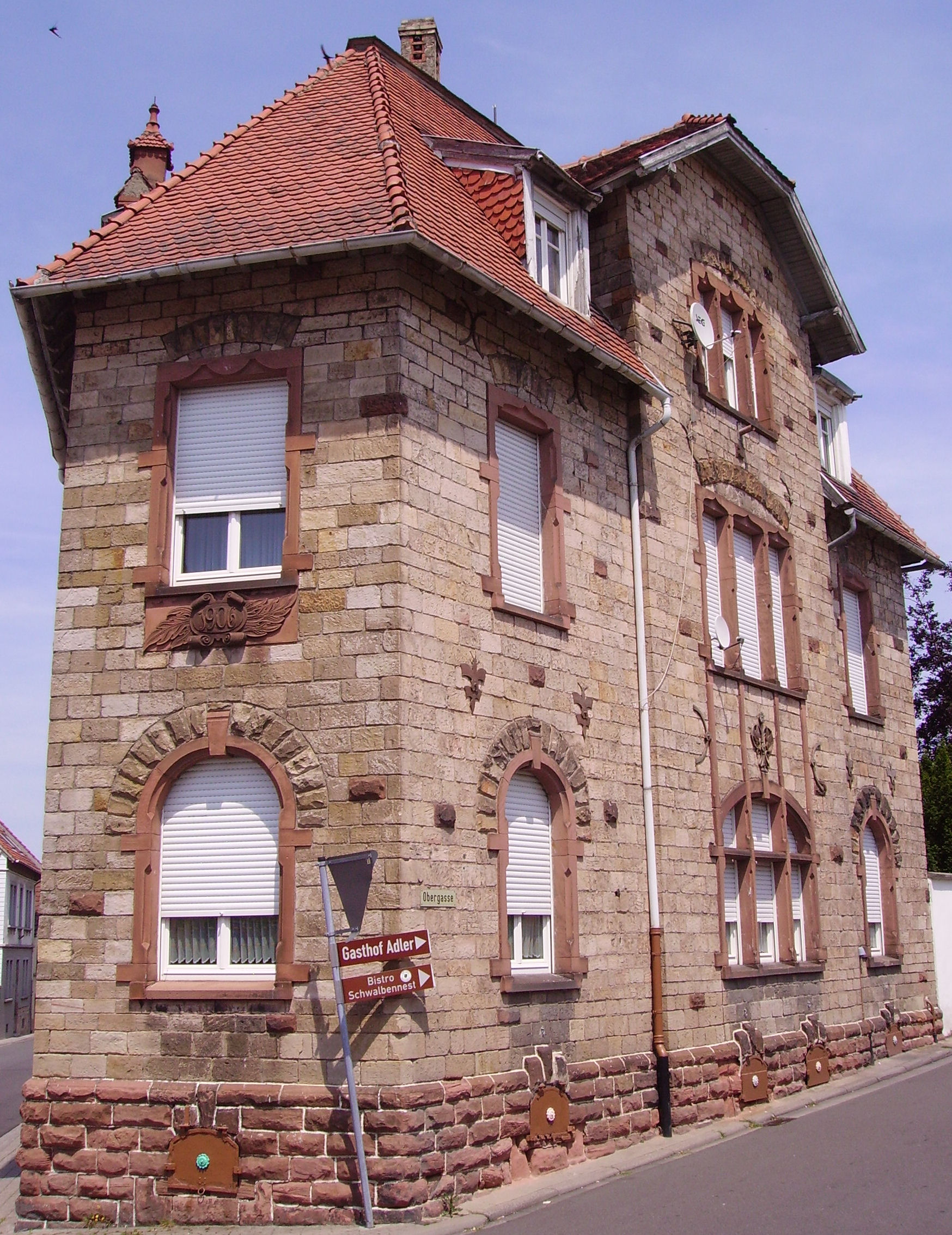 views of Hettenleidelheim, Germany